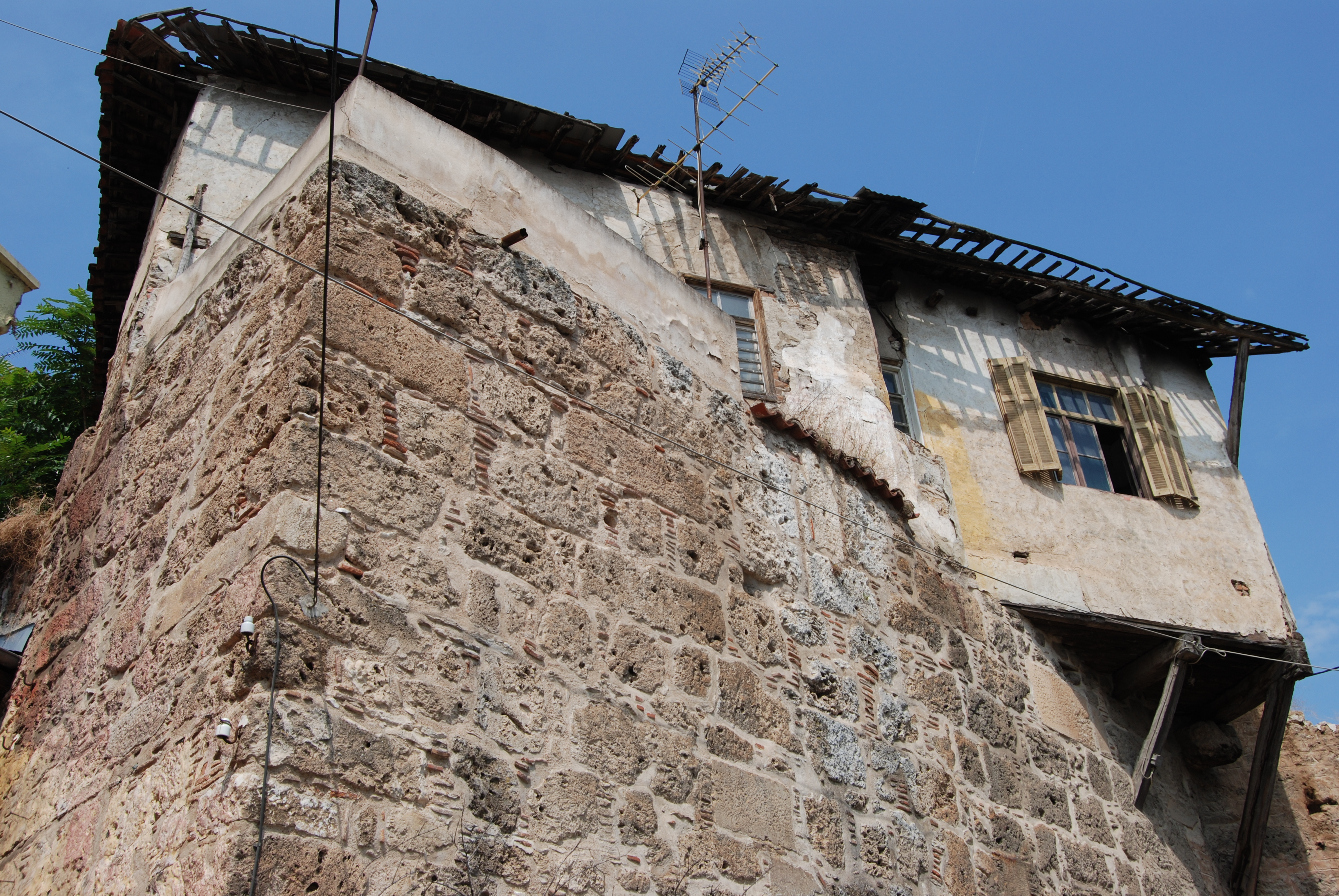 Mahmud Celebi, Ber